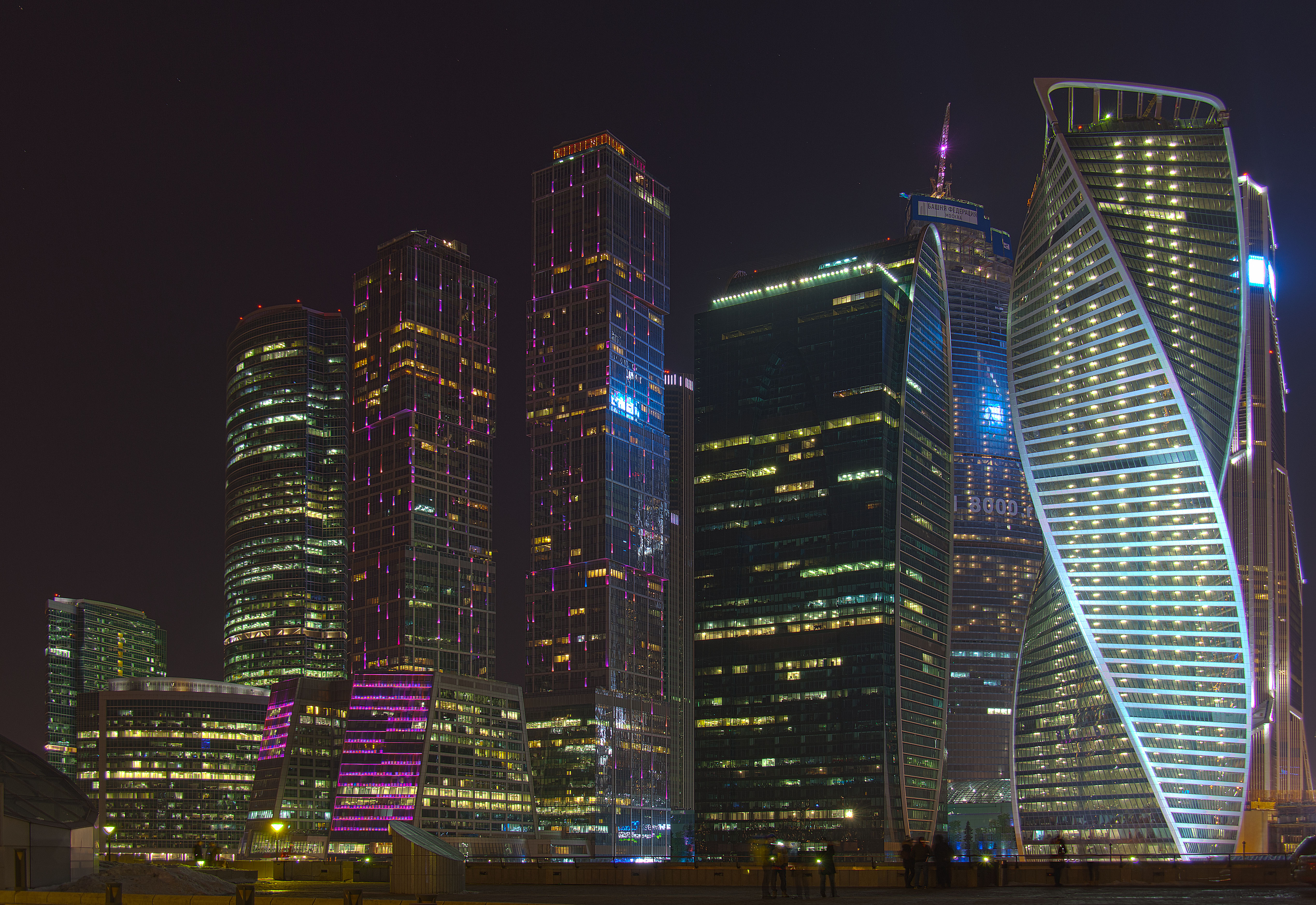 Moscow city. Night.